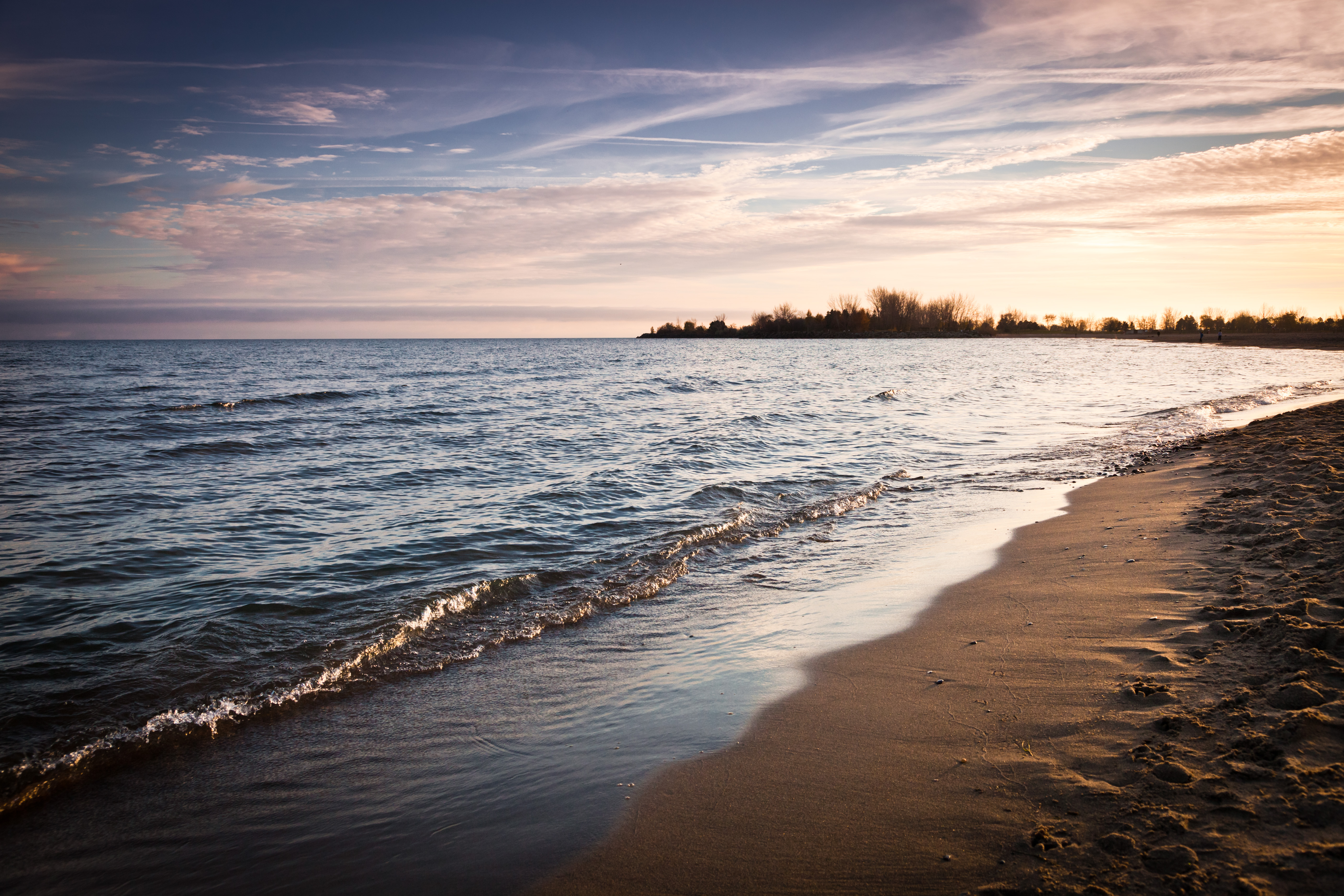 Sunset at Ashbridges Bay Park I was going to stay longer until the sun went down more but I remembered the last time I did that.... I had trouble getting back to the bus stop because it got really really dark.... lol